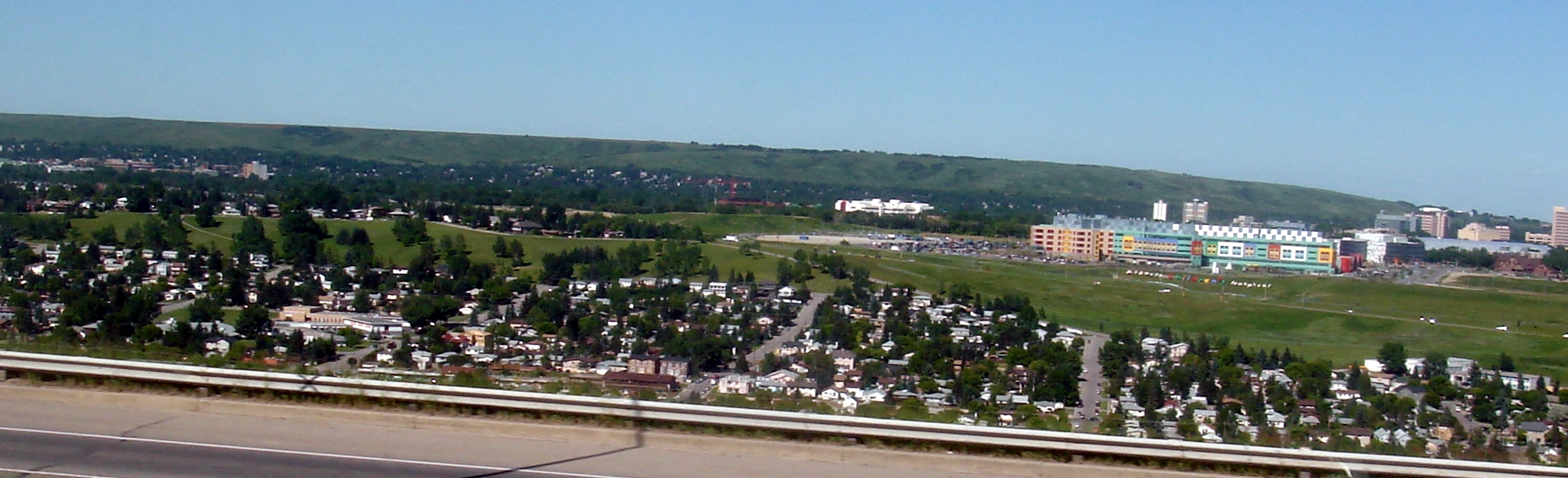 Neighbourhood of Monrgomery in Calgary, Alberta, Canada. Albera Children Hospital in background